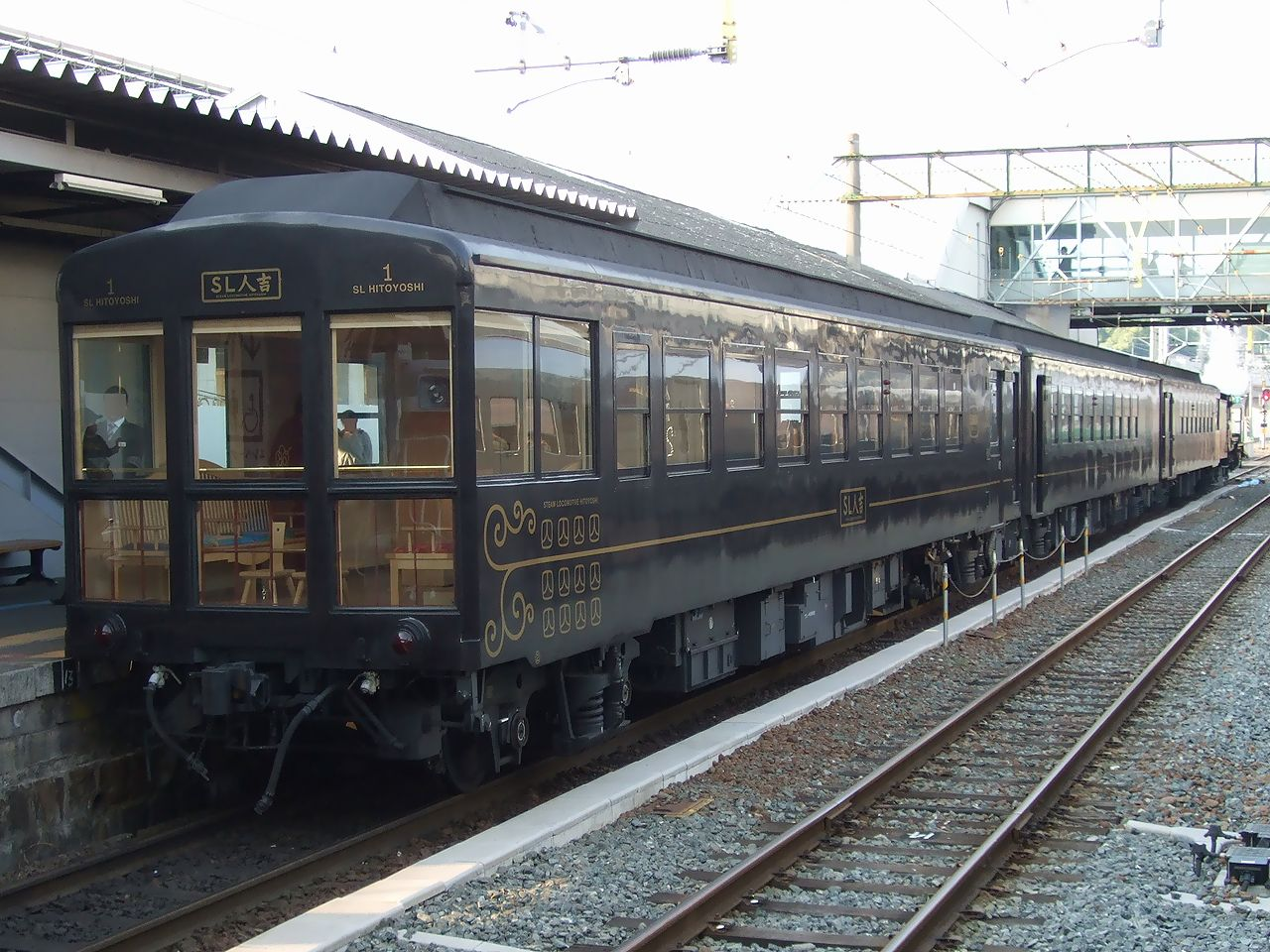 JR Kyushu train “SL Hitoyoshi” Location:at Kumamoto Station, Kumamoto, Japan